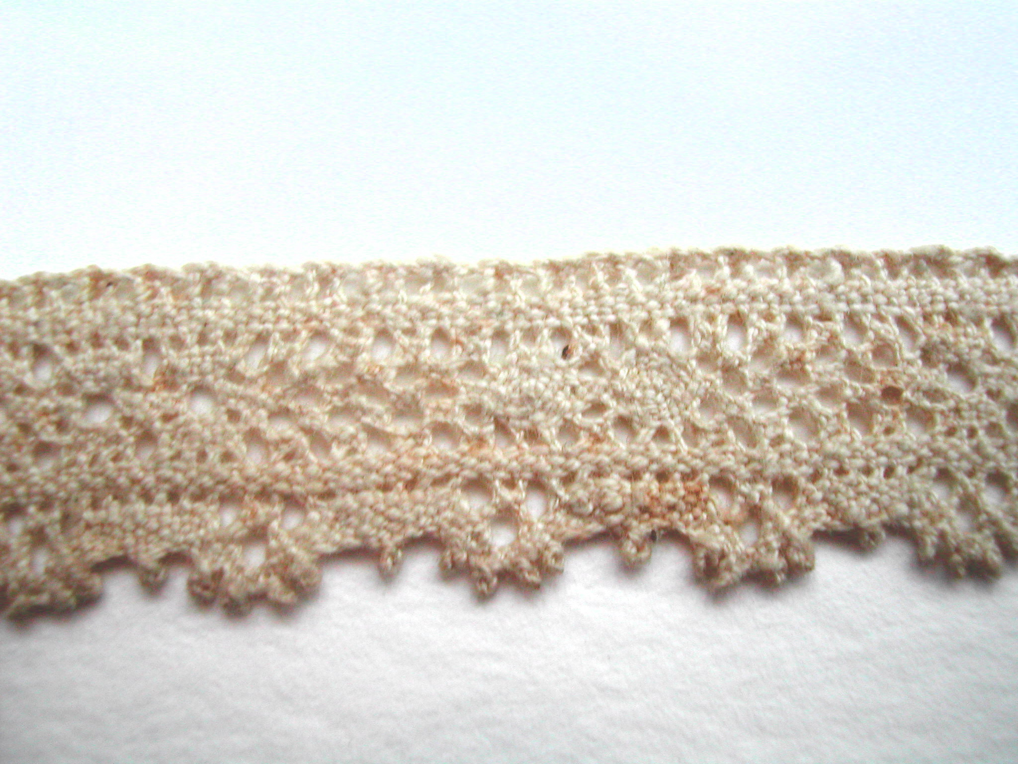 Traditional freehand lace, origin unknown.